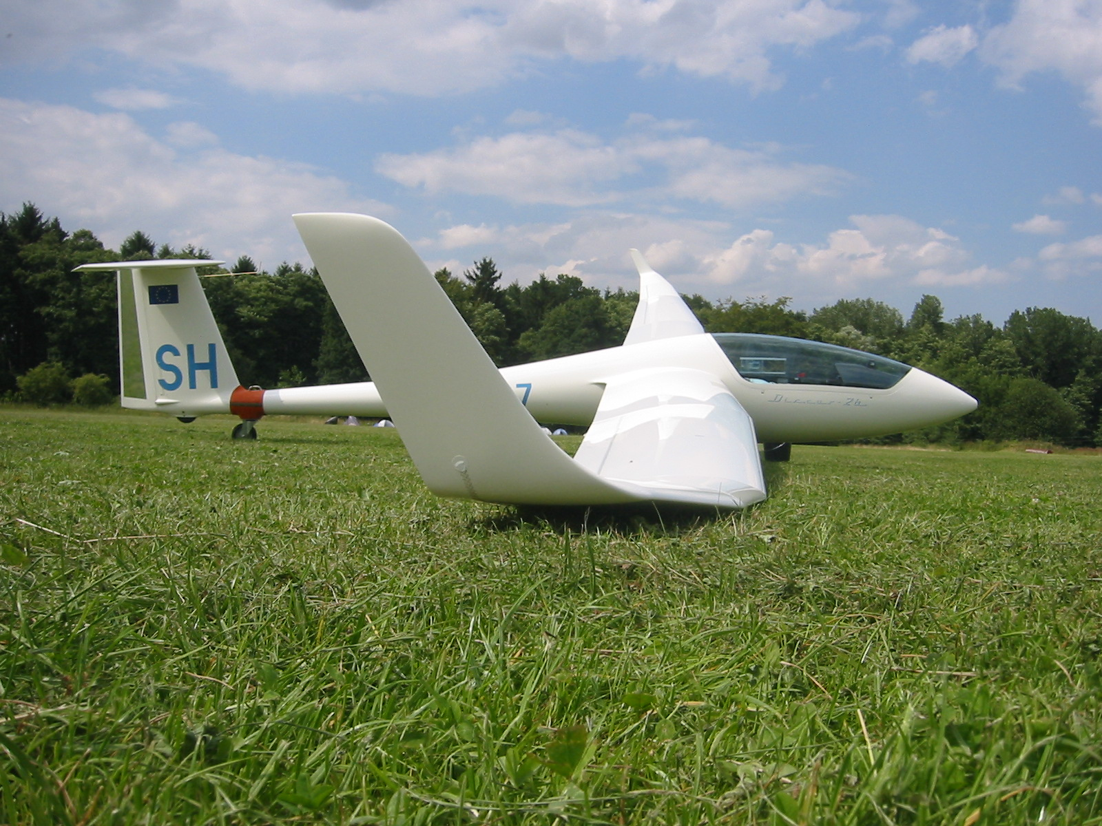 Winglet of a Schempp-Hirth Discus 2b